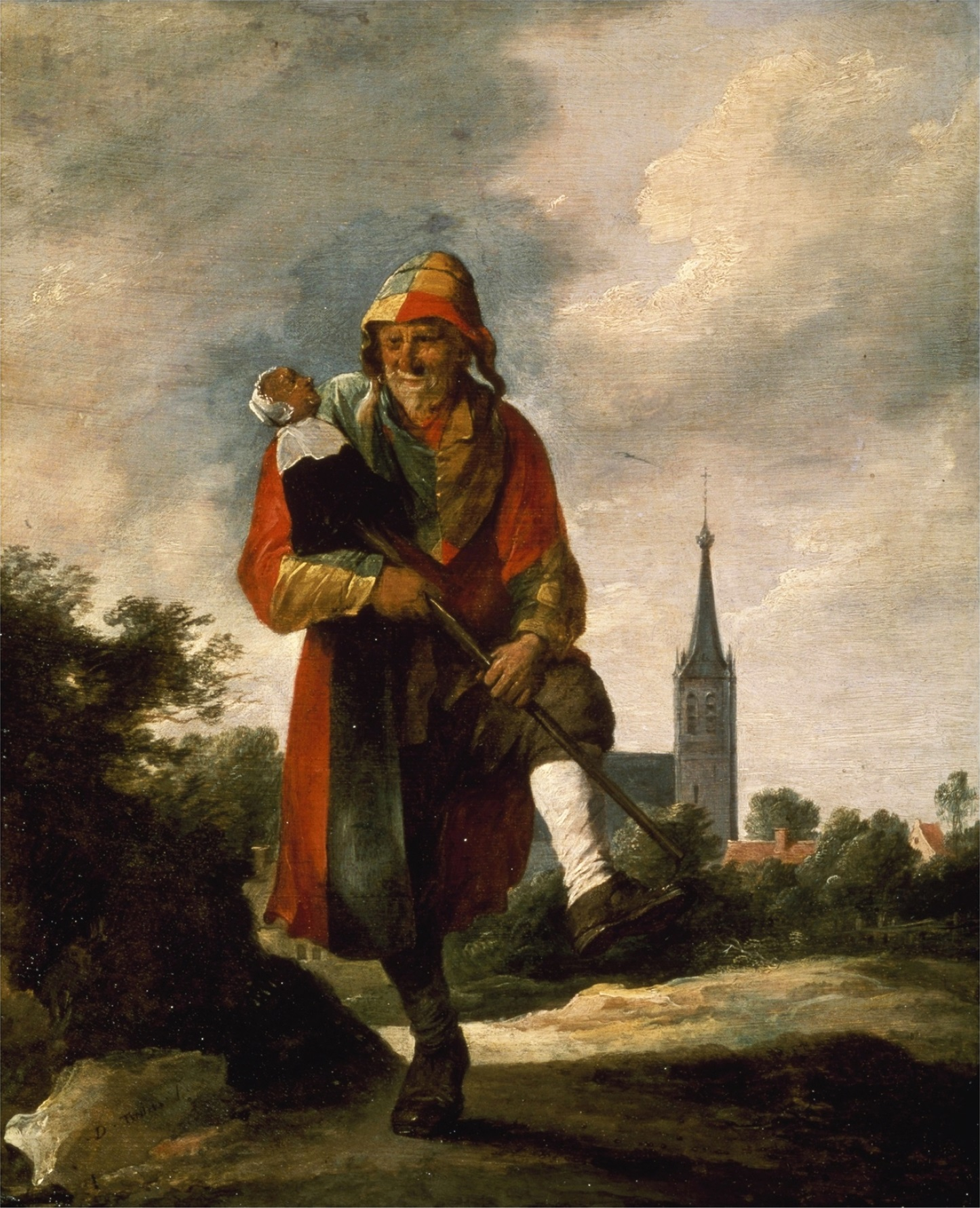 A fool